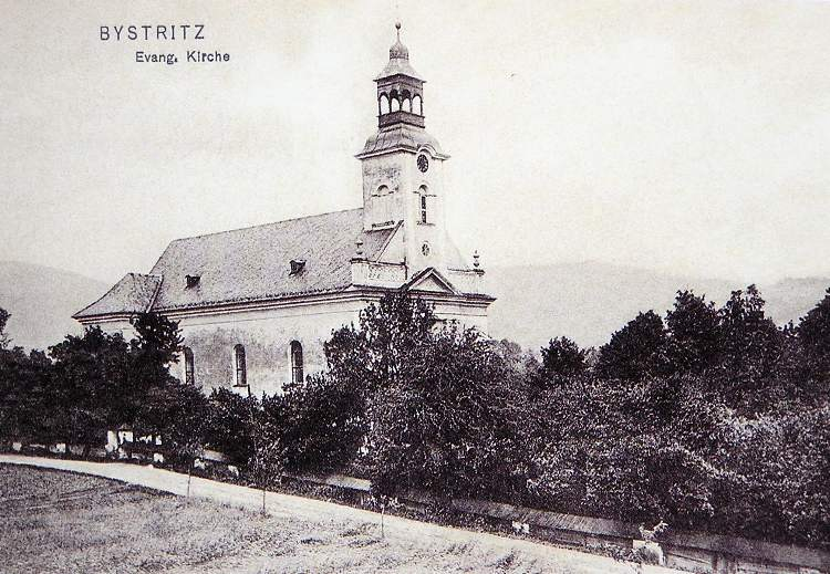 Lutheran Church in Bystřice nad Olší, Frýdek-Místek District, Czech republic